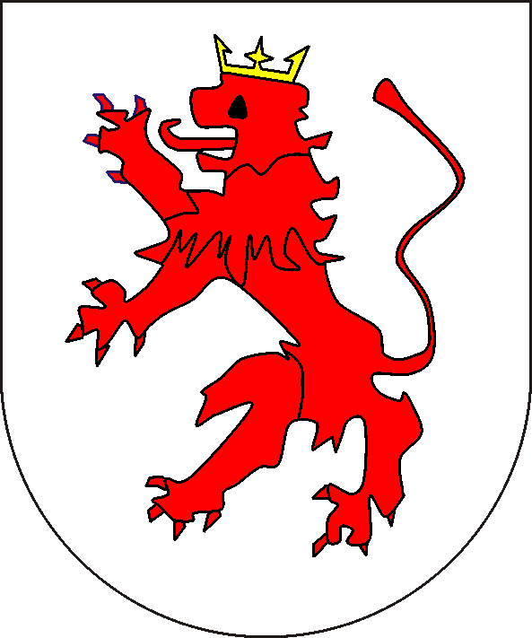 coats of arms of the markgraves of Hachberg (or Breisgau)